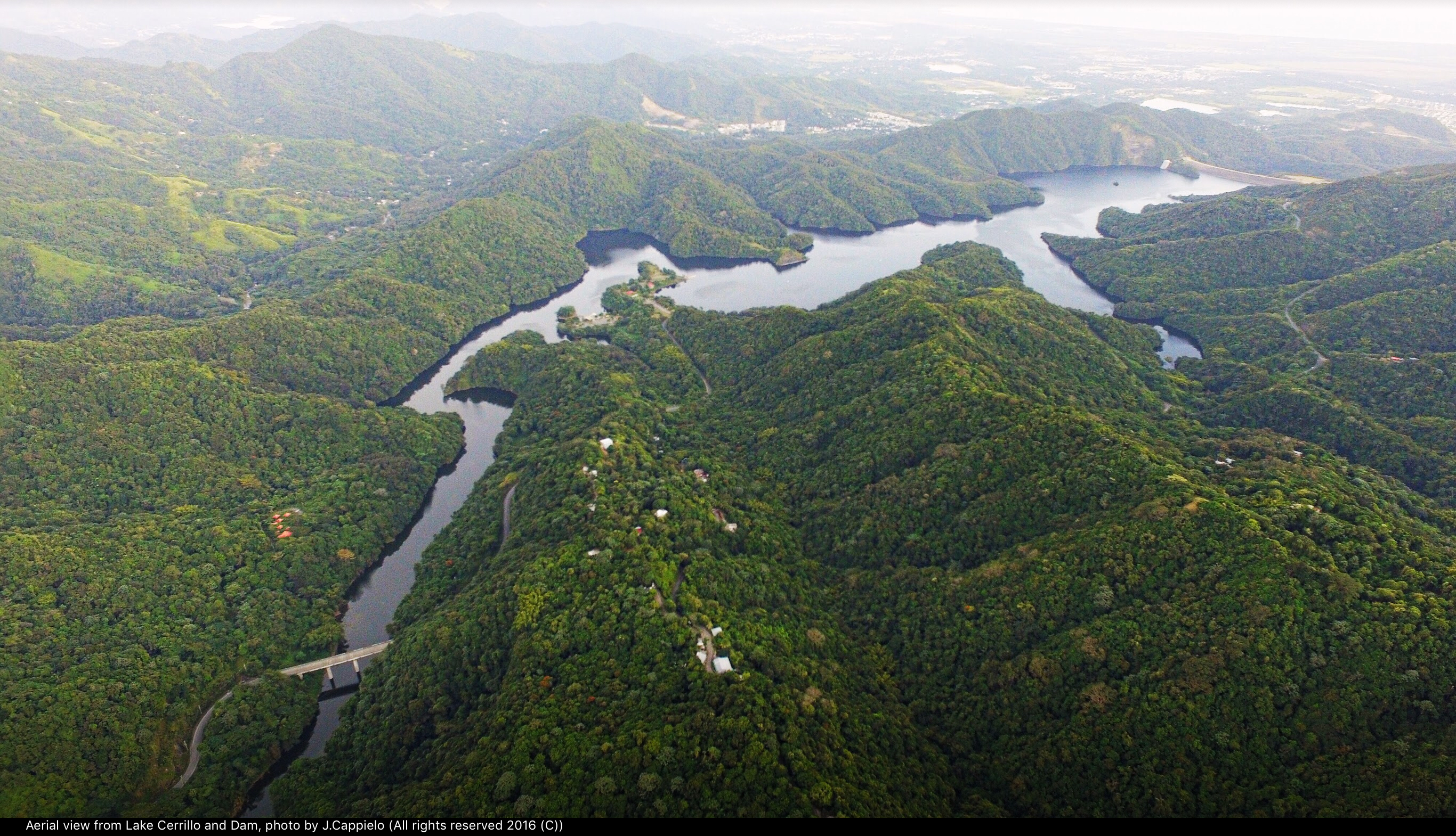 Aerial view from Cerrillos lake and dam located in Ponce, Puerto Rico